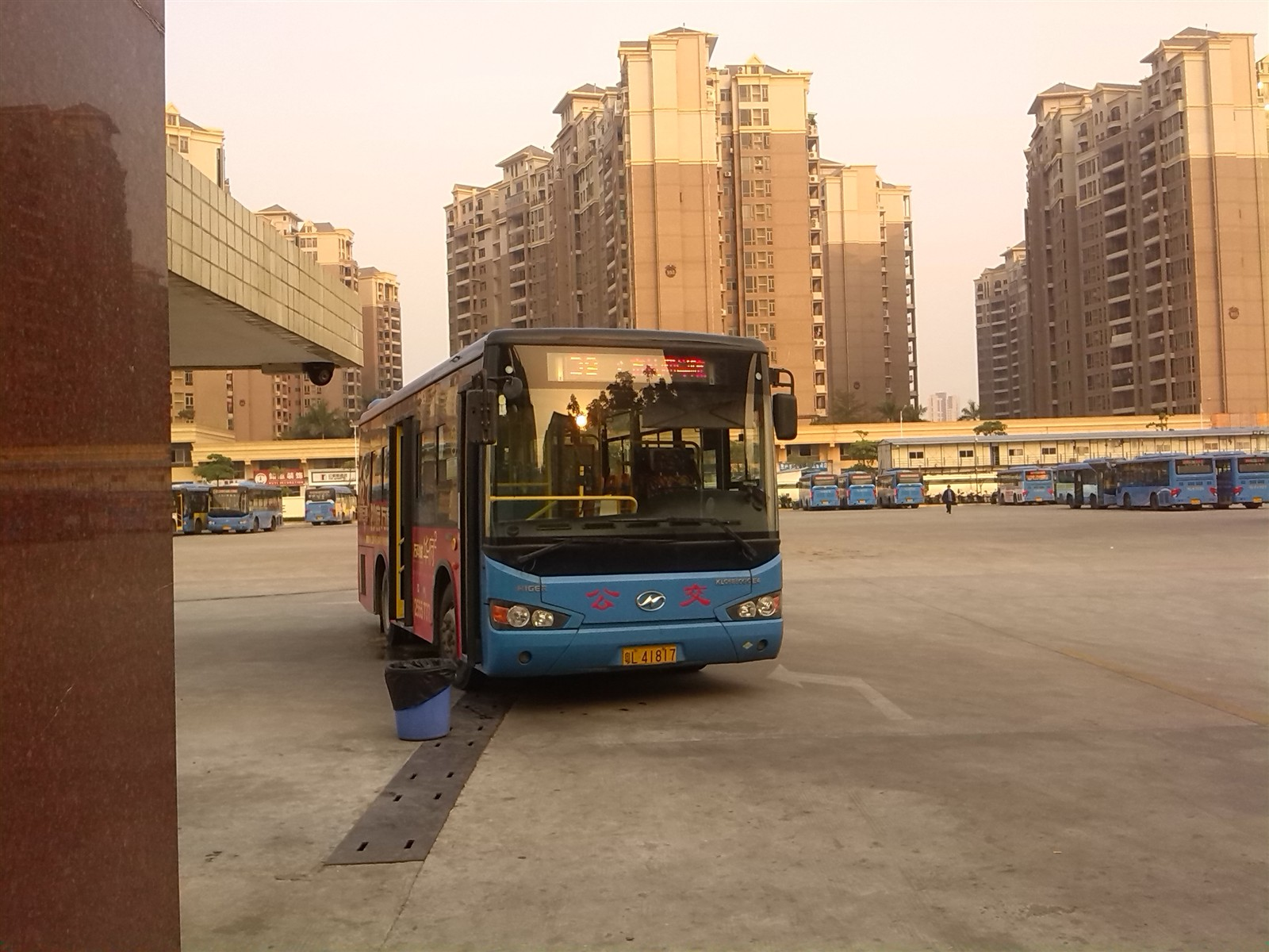 A Higer KLQ6850GCE4 bus which is powered by liquid natural gas and enlisting on Huizhou City Bus Cooperation Route 39. The plate number of this bus is "粤L•41817" . The photo was taken at He'nan'an Bus Parking Lot.